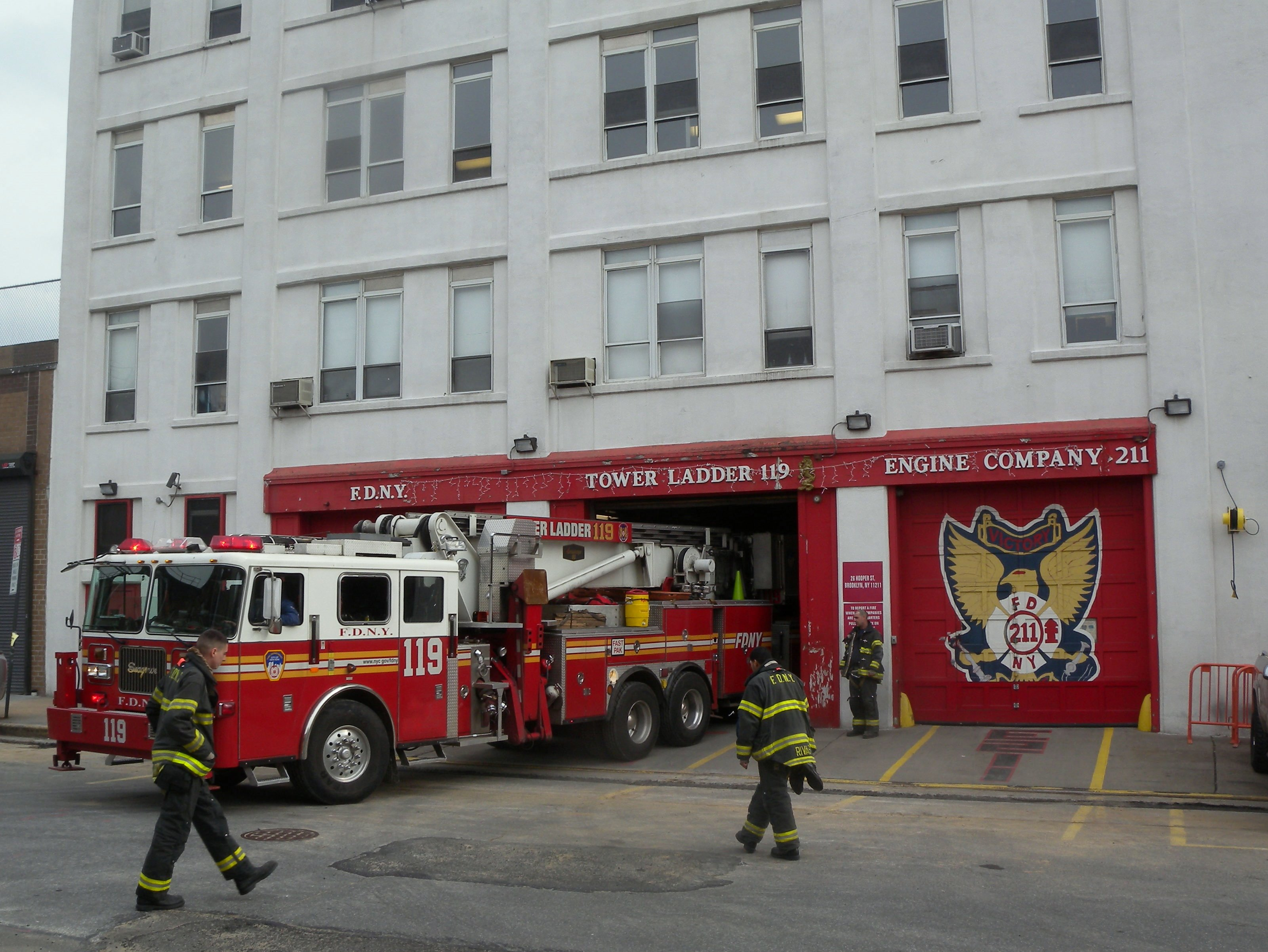 Looking east across Hooper Street as Tower Ladder 119 backs into its barn on a cloudy afternoon. ZIP 11249.